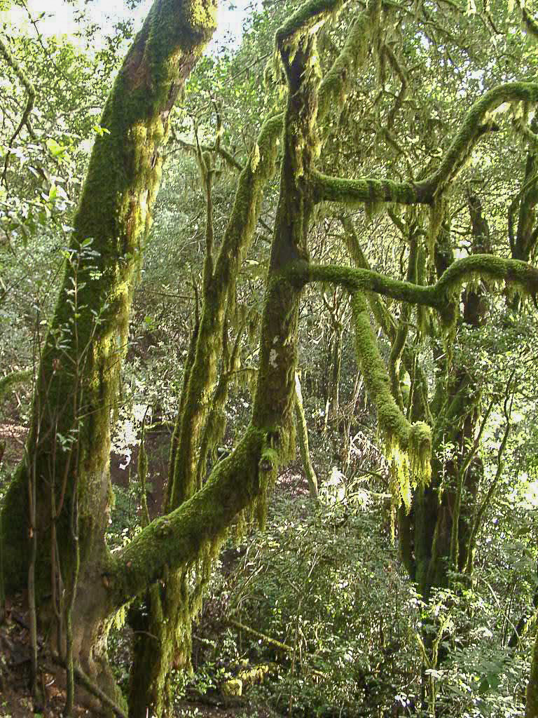 Trees in part of Garajonay National Park, La Gomera